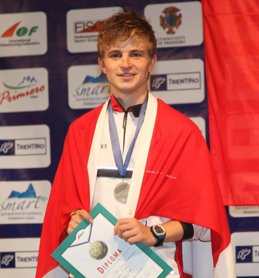 Søren Bobach (DEN) The crop version of the original file on picasa